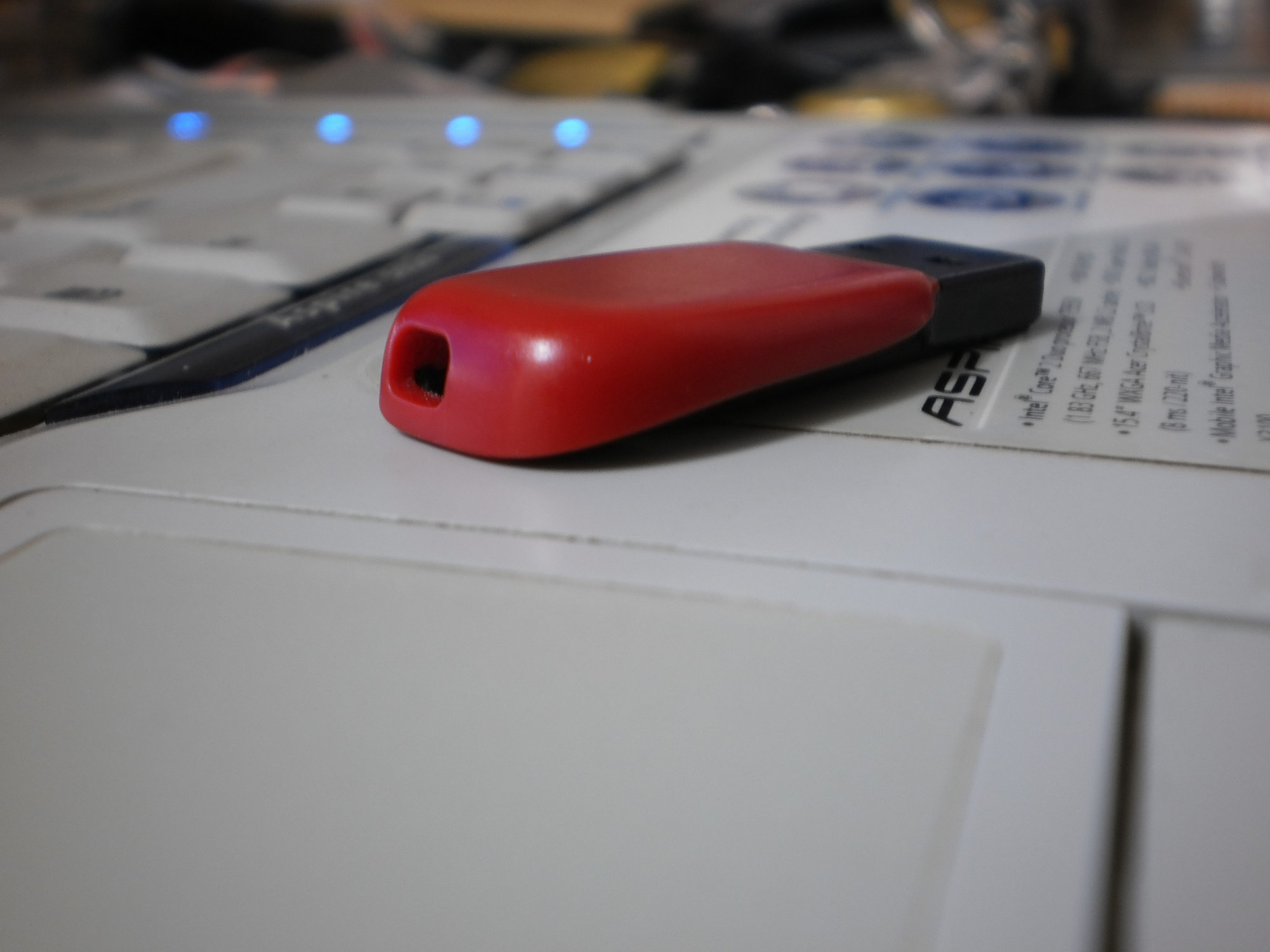 USB Drive, 8GB